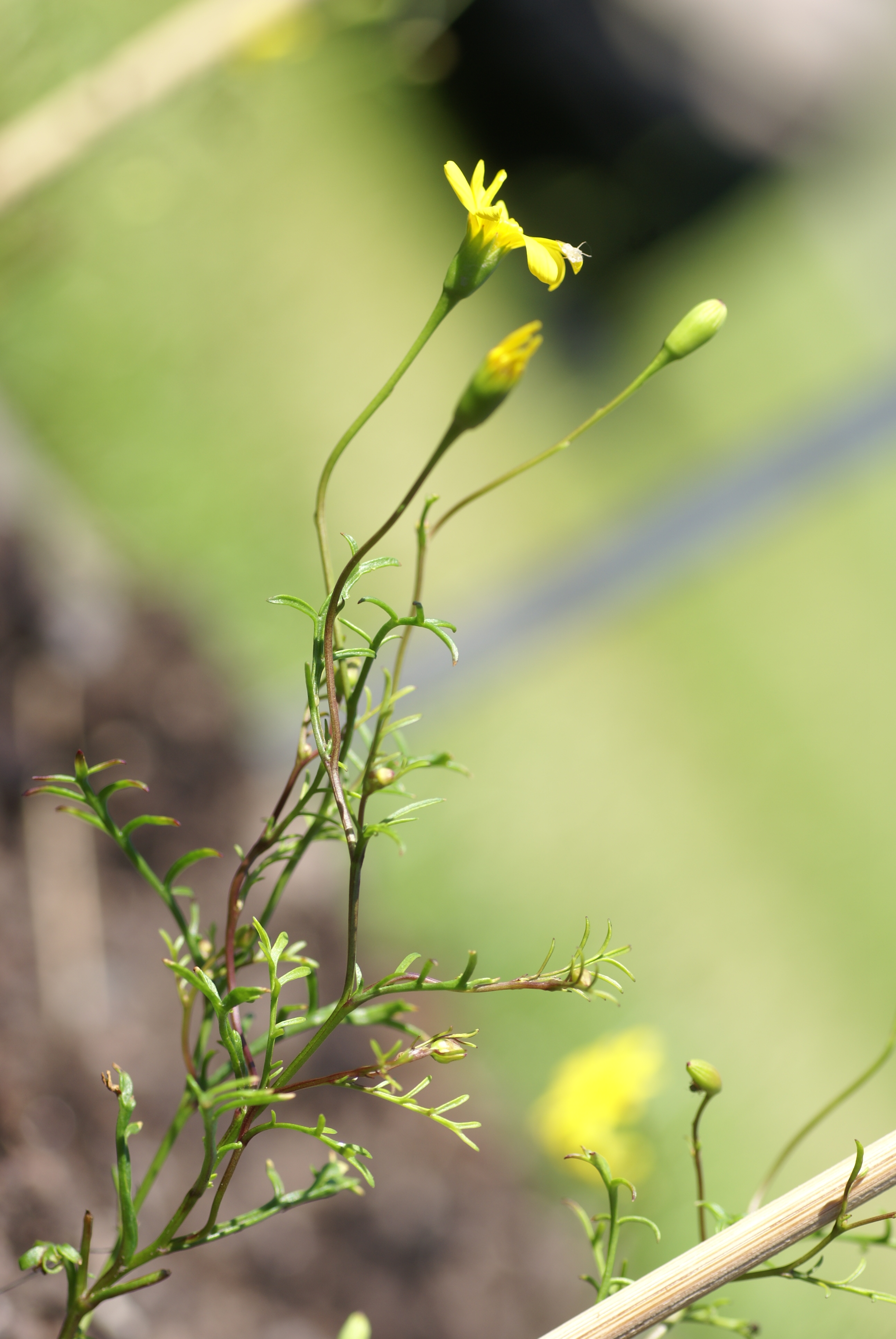 Plant species Steirodiscus tagetes in Bergianska trädgården in Stockholm, Sweden.